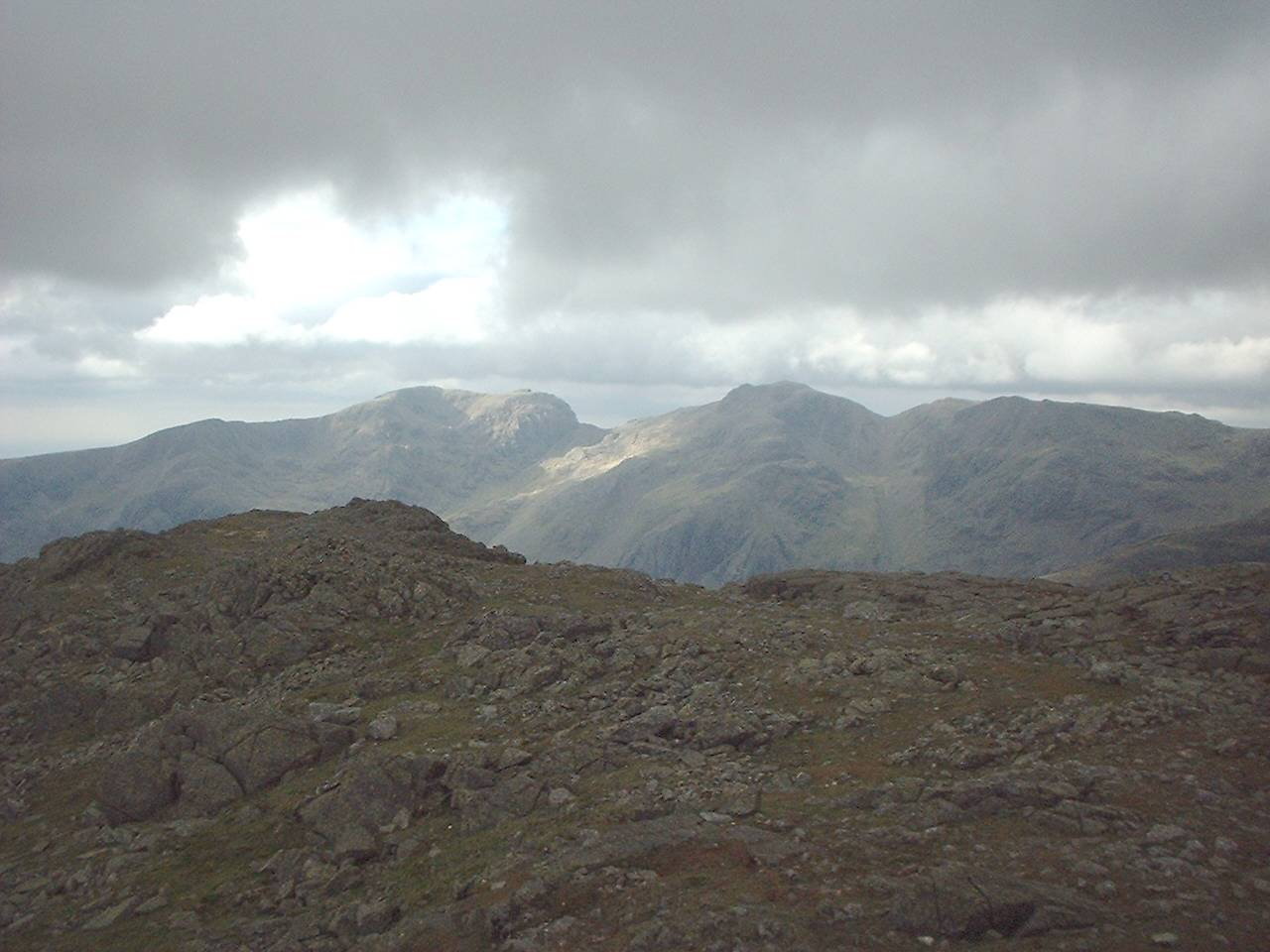 My photo of scafell pike